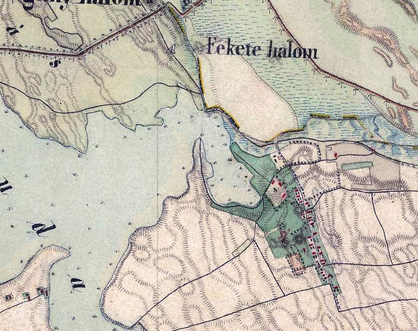 Village Nosa (Nosza) shown on the 18th Century map of the Second Military Mapping Survey of Austrian Empire